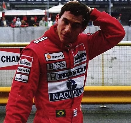 Ayrton Senna at San Marino/Imola Grand Prix in 1989.